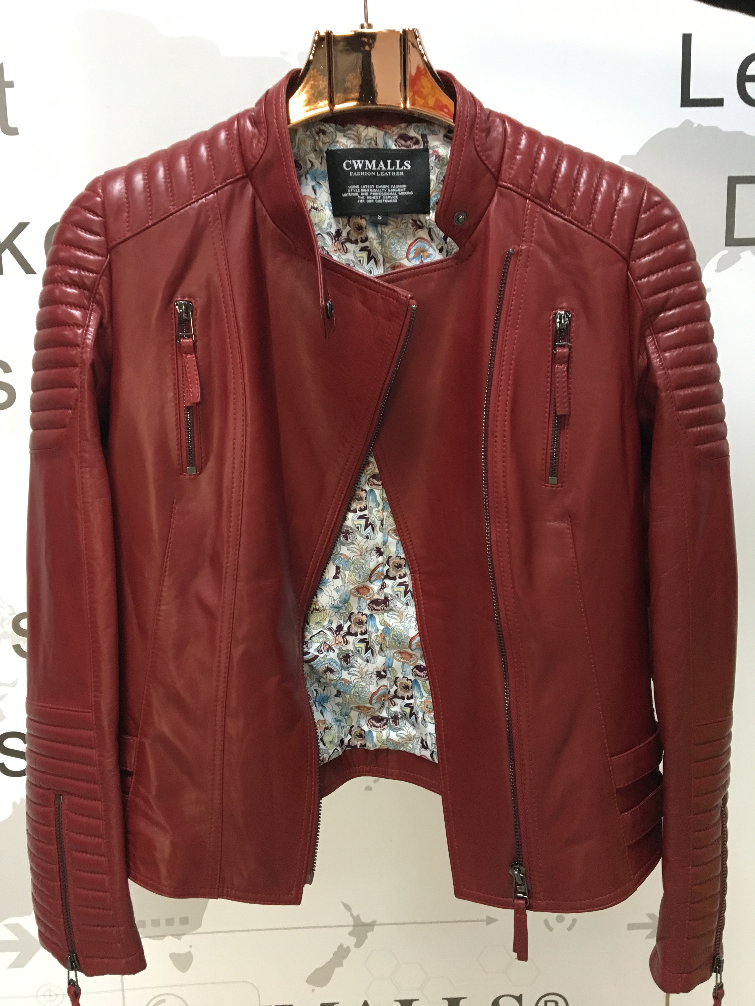 Women's Red Leather Bomber Jacket.